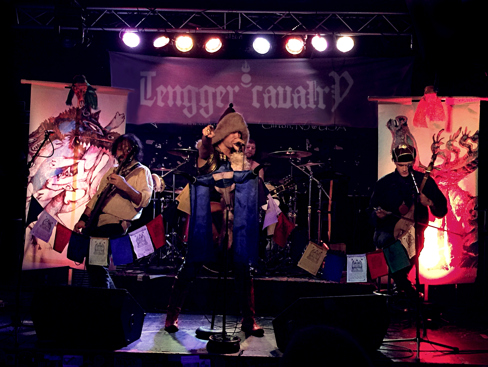 Tengger Cavalry in Clifton